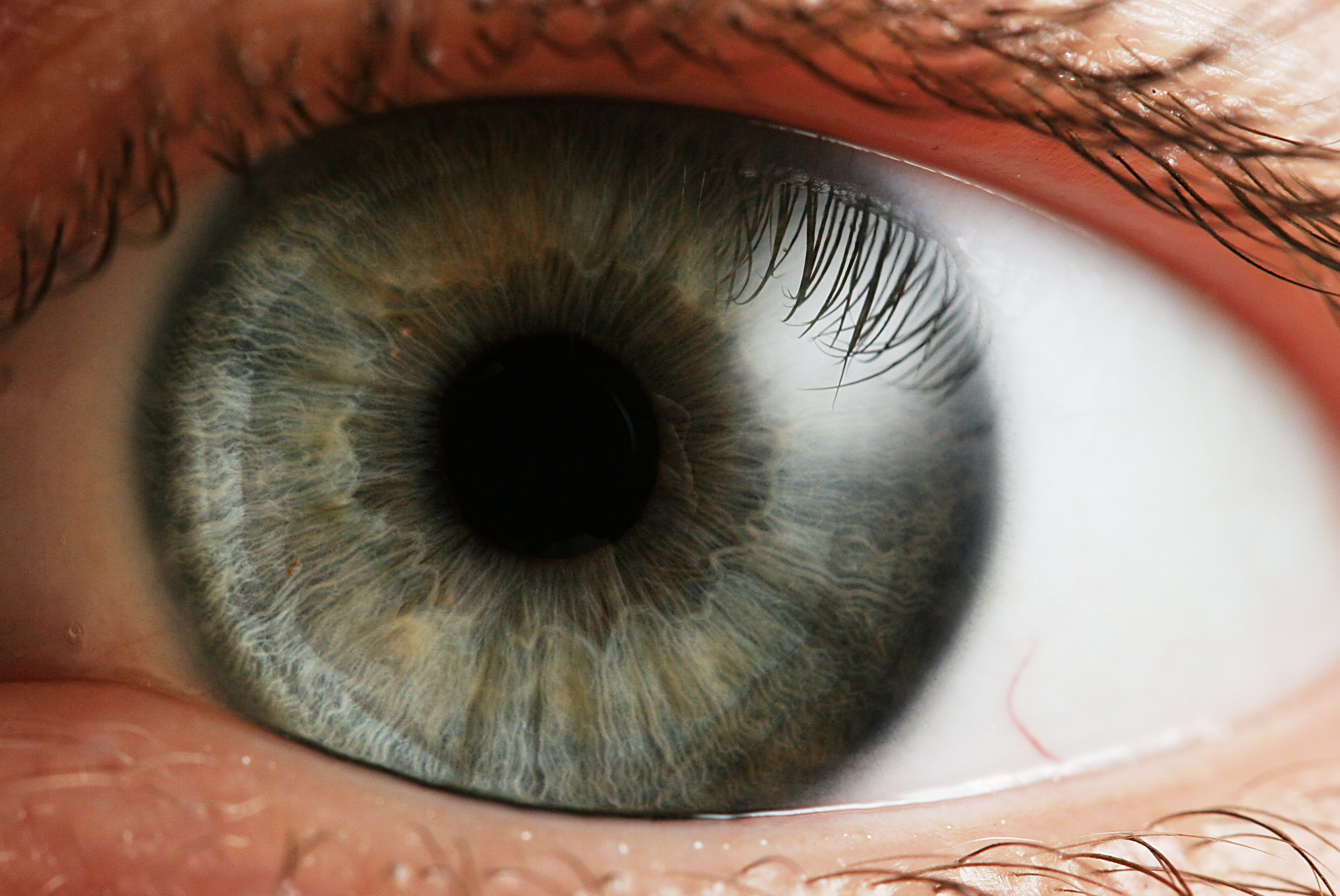 Human eye.